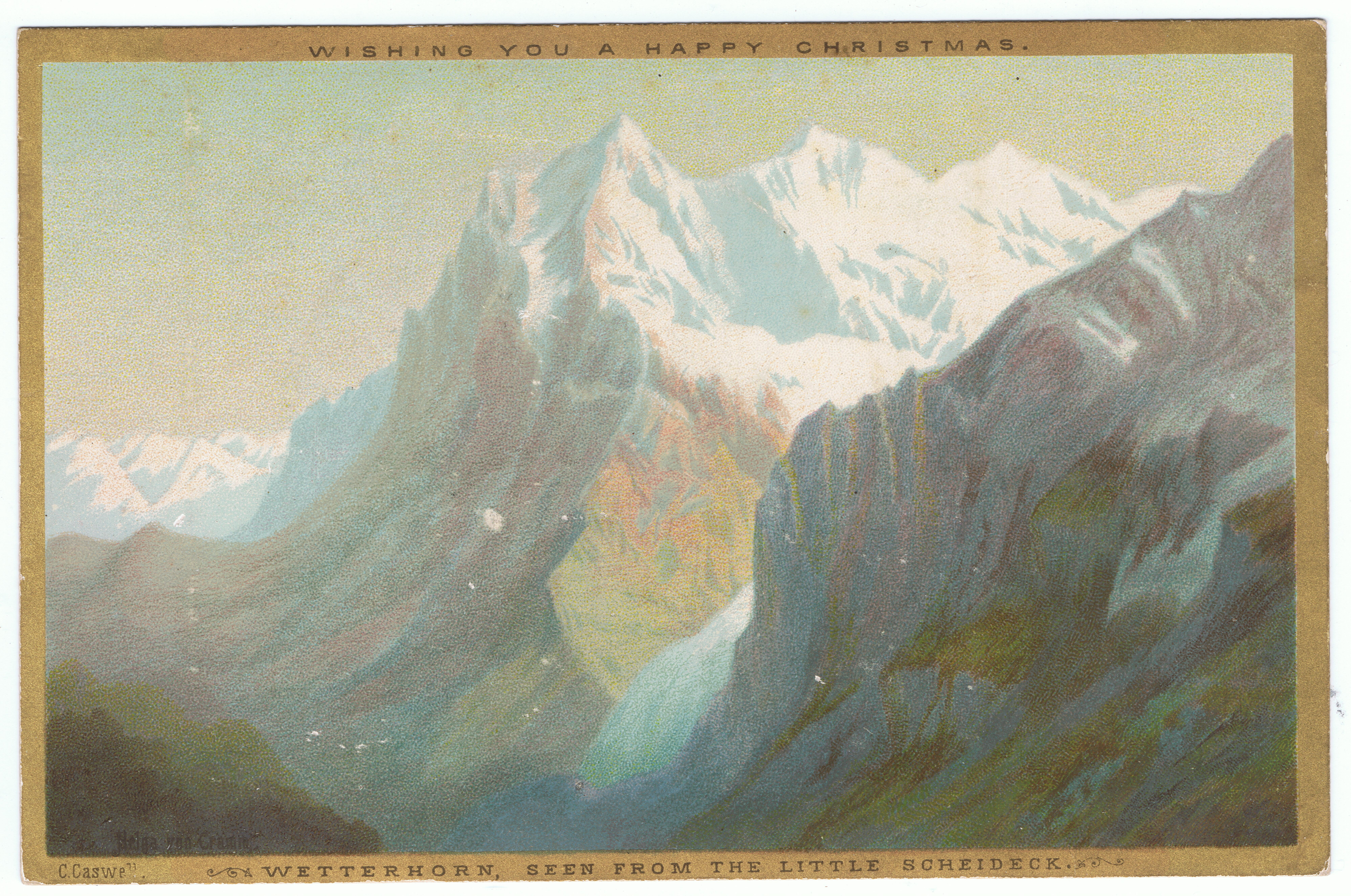 Scan (by me, R. de Salis, Rodolph (talk) 10:59, 16 January 2015 (UTC)), of Helga von Cramm, chromolithograph, Wetterhorn, seen from the The Little Scheideck, Christmas card. Published by C. Caswell. 6.5 x 4.24 inches.